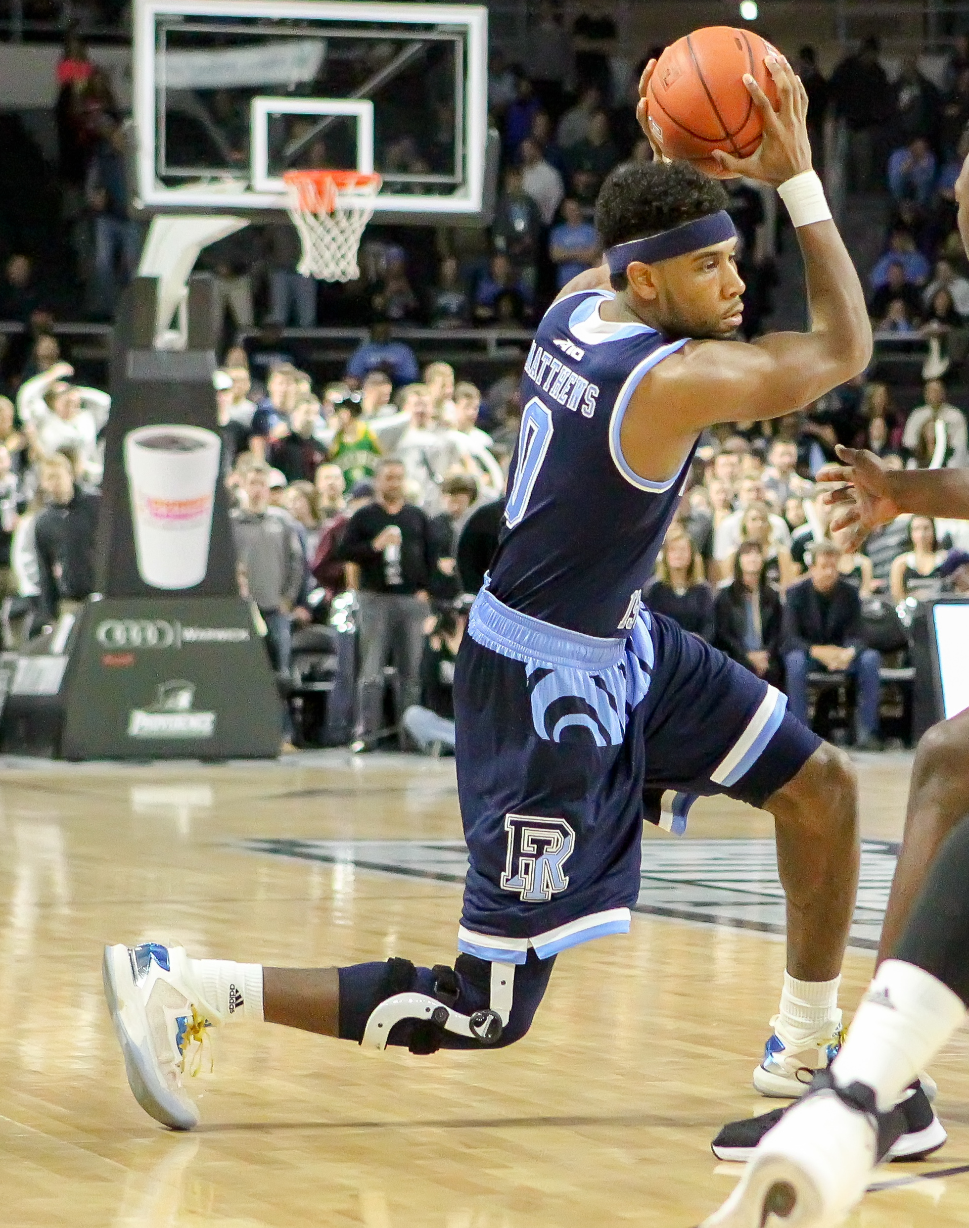 December 3, 2016. The Dunkin' Donuts Center, Providence, RI. Photo:©KJ Sports Pics